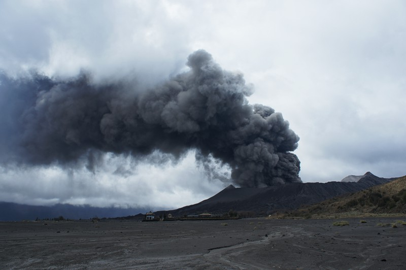 Mount Bromo eruption at 22.01.2011 9:05 AM from Sand Sea Caldera GPS S7 55.804 E112 57.220